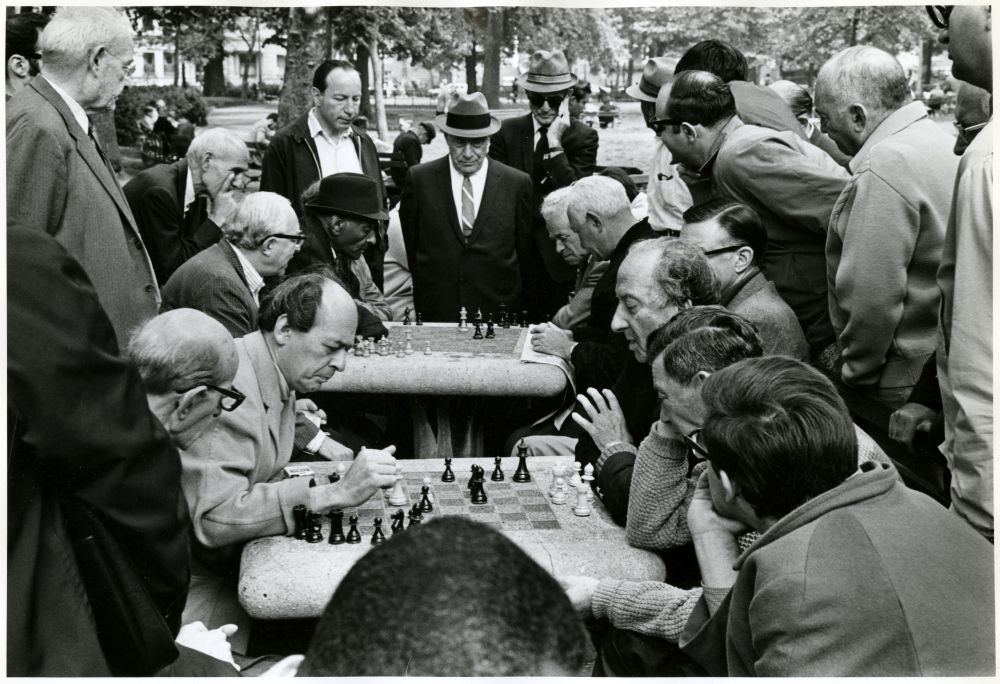 Accession Number: 2007:0275:0057 Maker: James Jowers (American b. 1938) Title: Washington Sq. P. Date: 1969 Medium: gelatin silver print Dimensions: Image: 16.2 x 23.8 cm Overall: 20.2 x 25.1 cm George Eastman House Collection General – information about the George Eastman House Photography Collection is available at For information on obtaining reproductions go to